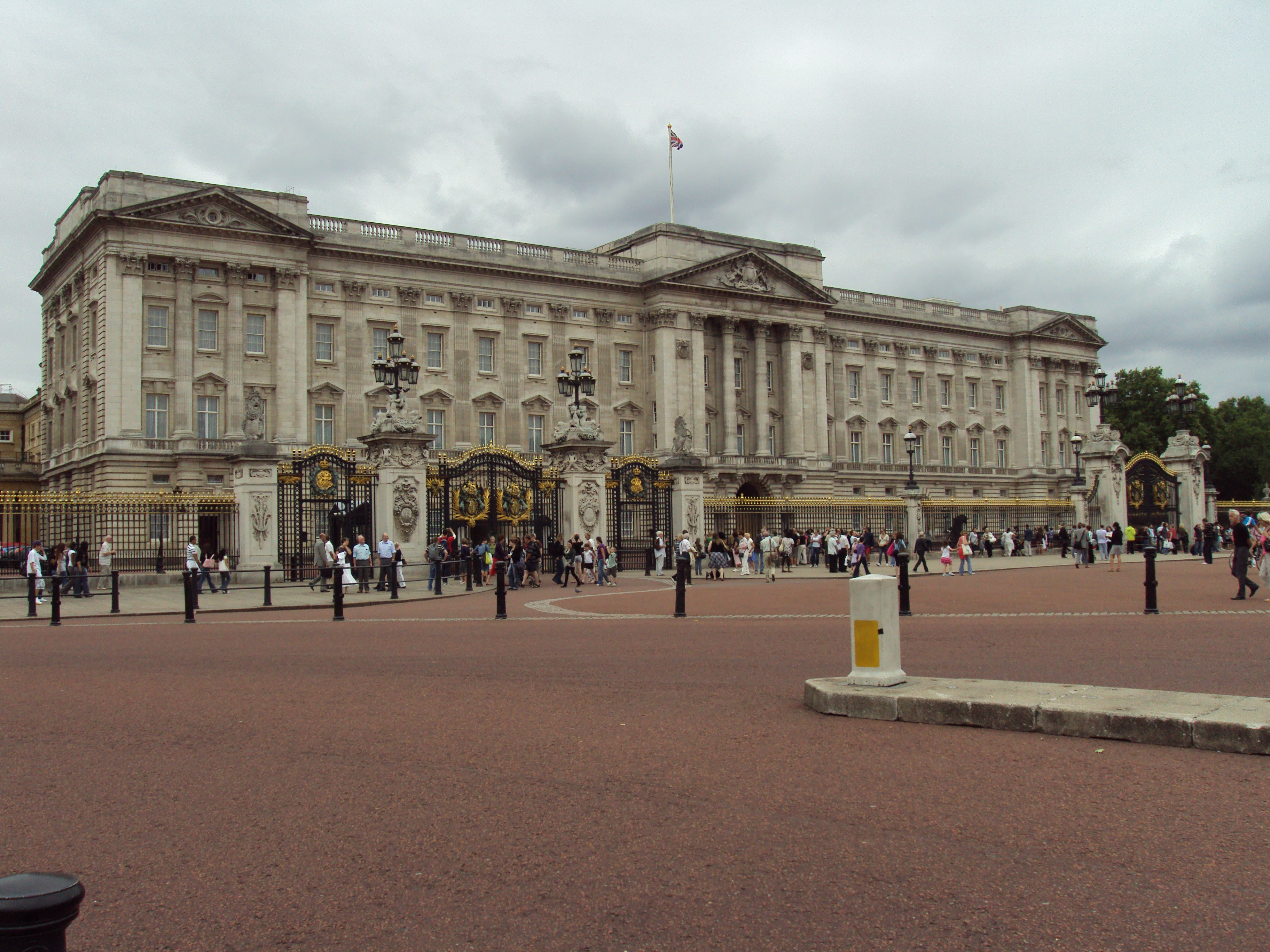 Buckingham Palace, London, England.